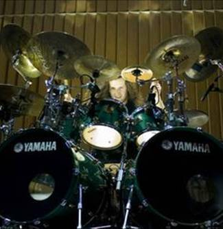 Rafael Yugueros performing live in Santiago de Compostelas, Spain, 2007.